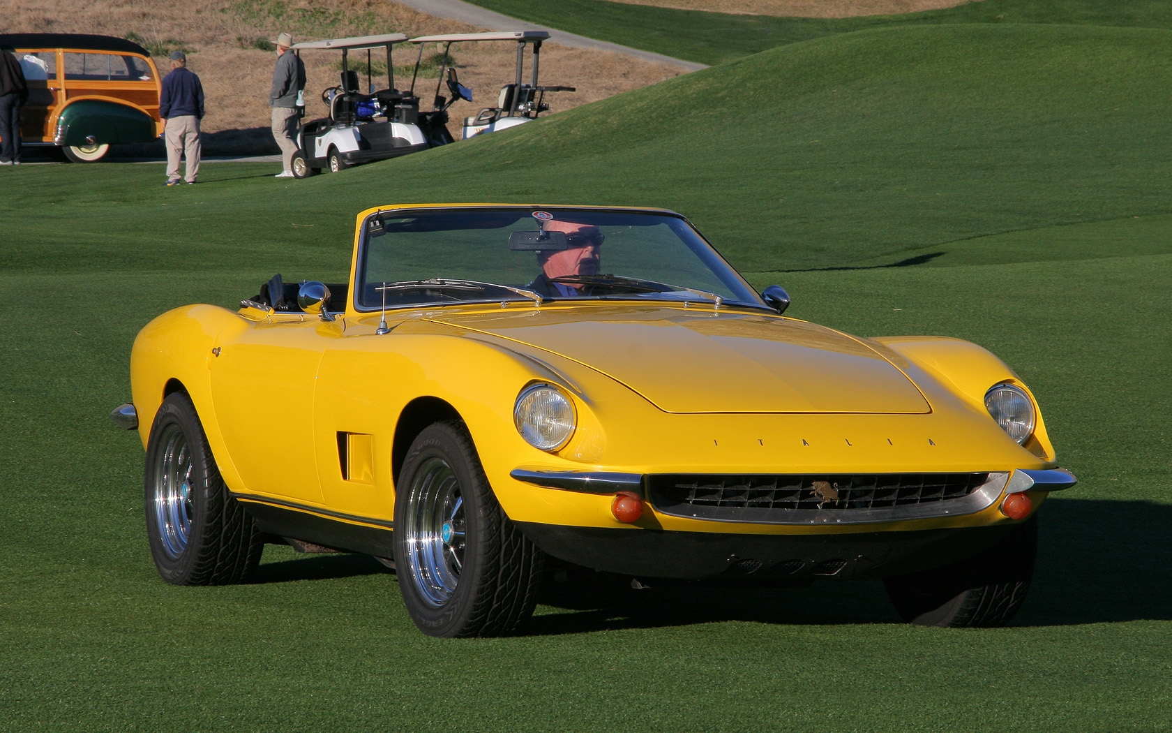 1967 Italia by Intermeccanica - fvr